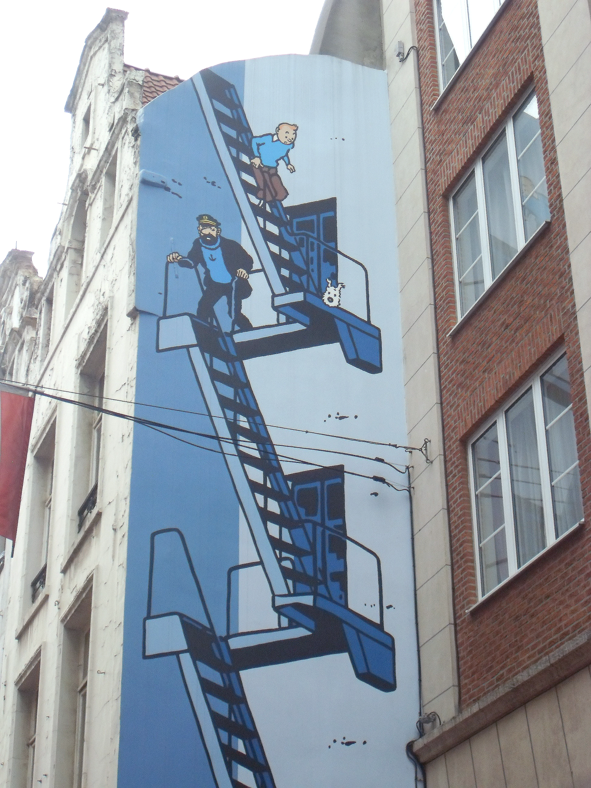 The Adventures of Tintin mural painting by Hergé. Location: Rue de l'Etuve 37, Brussels. Surface: ± 36 m². Realisation: Oreopoulos G. and Vandegeerde D. Year: July 2005. Comment: The scene belongs to the albmum The Calculus Affair. The Adventures of Tintin (Les Aventures de Tintin) is a series of classic comic books created by the Belgian artist Georges Rémi (1907–1983), who wrote under the pen name of Hergé.